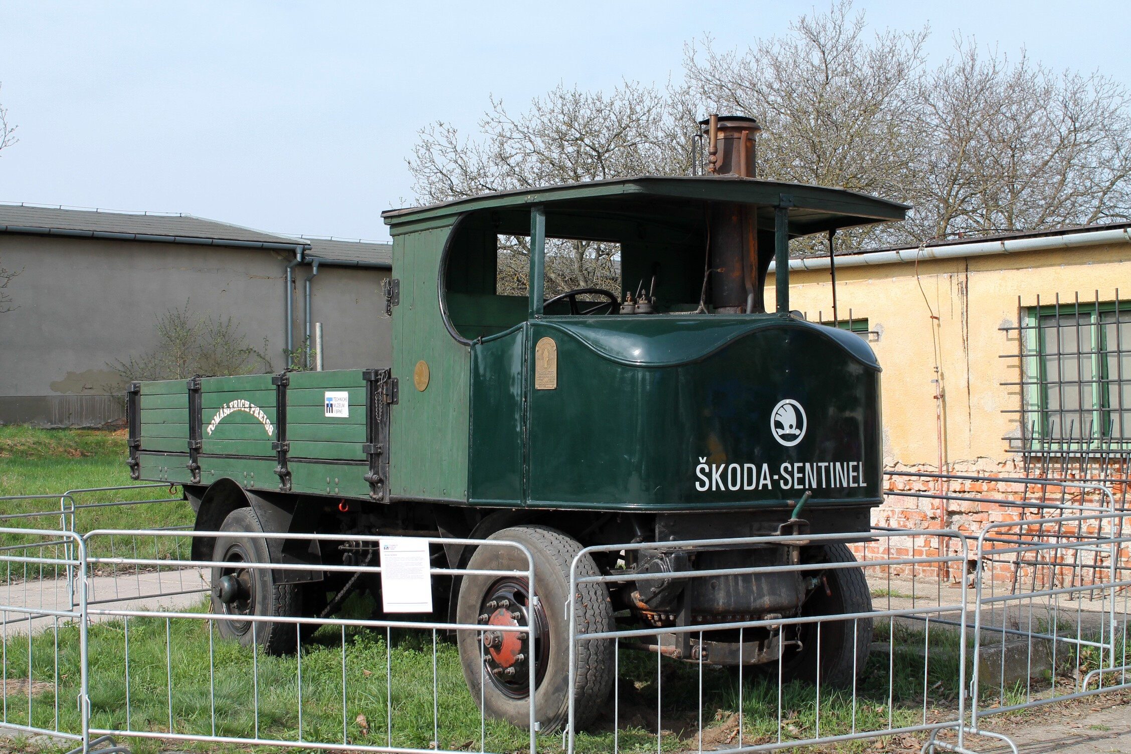 Škoda Sentinel historical steam truck, depository of Technical Museum in Brno, Czech Republic